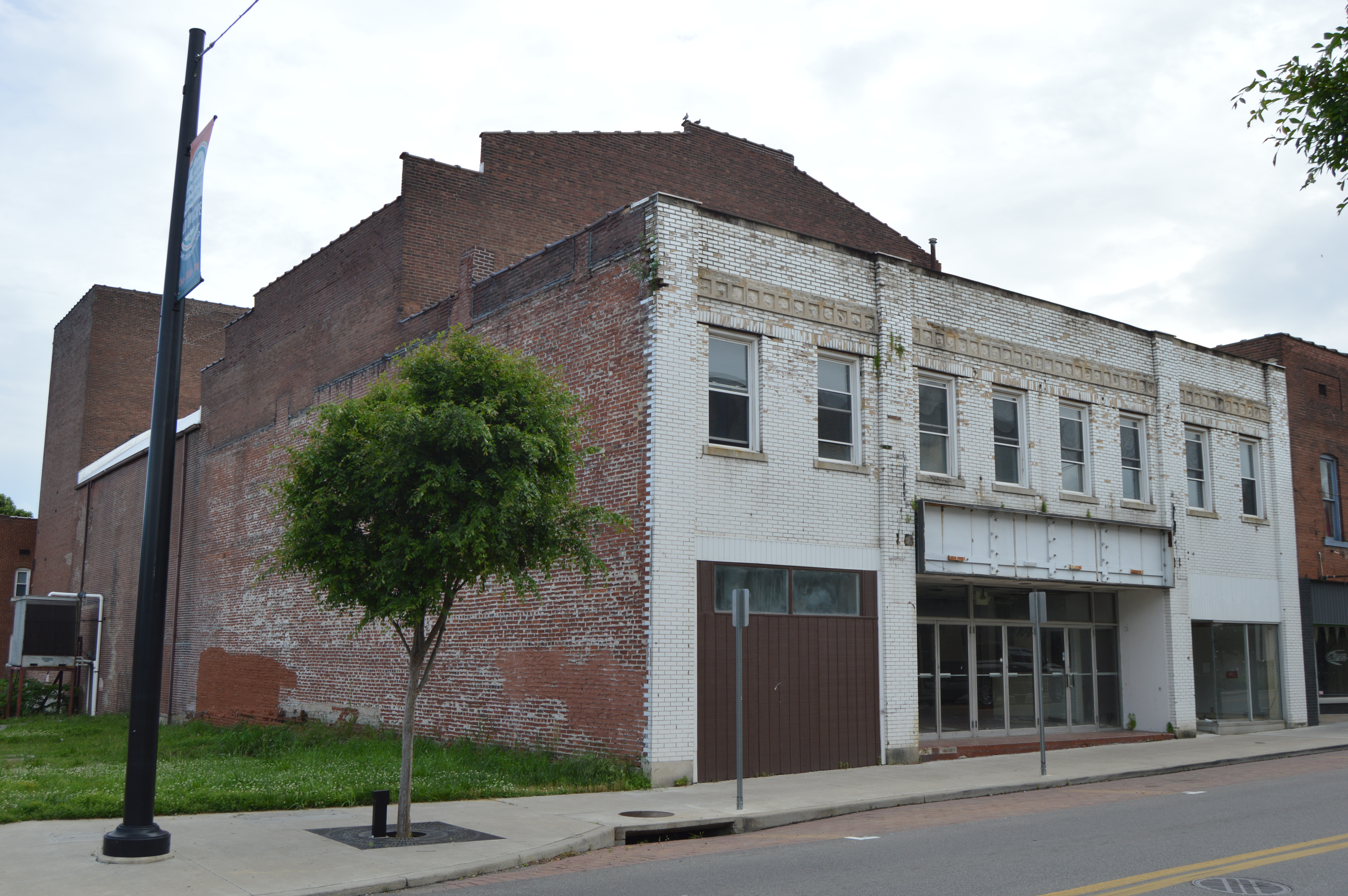 Front and eastern side of the Broadway Theatre, located at 805 Broadway Street in Cape Girardeau, Missouri, United States. Built in 1921, it is listed on the National Register of Historic Places.